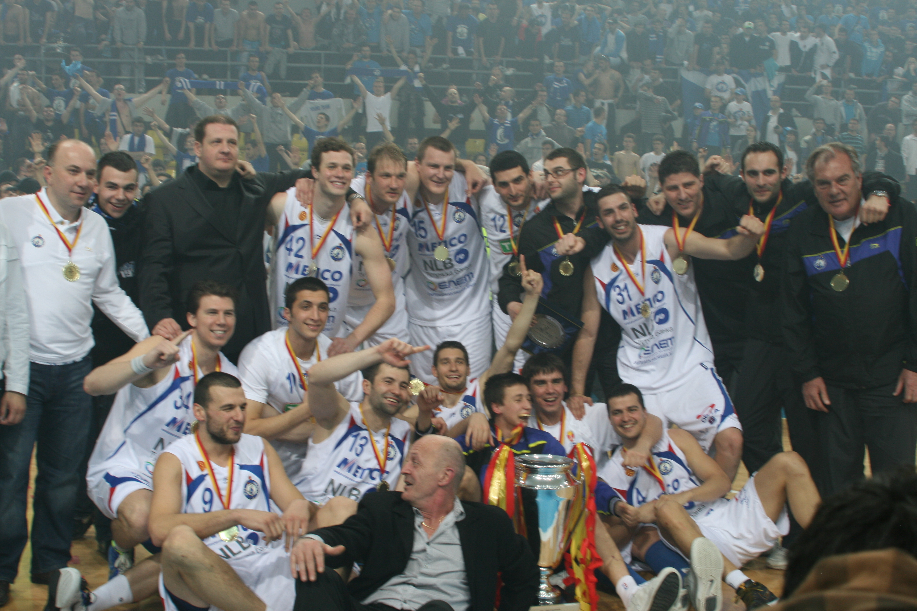 МЗТ куп финале